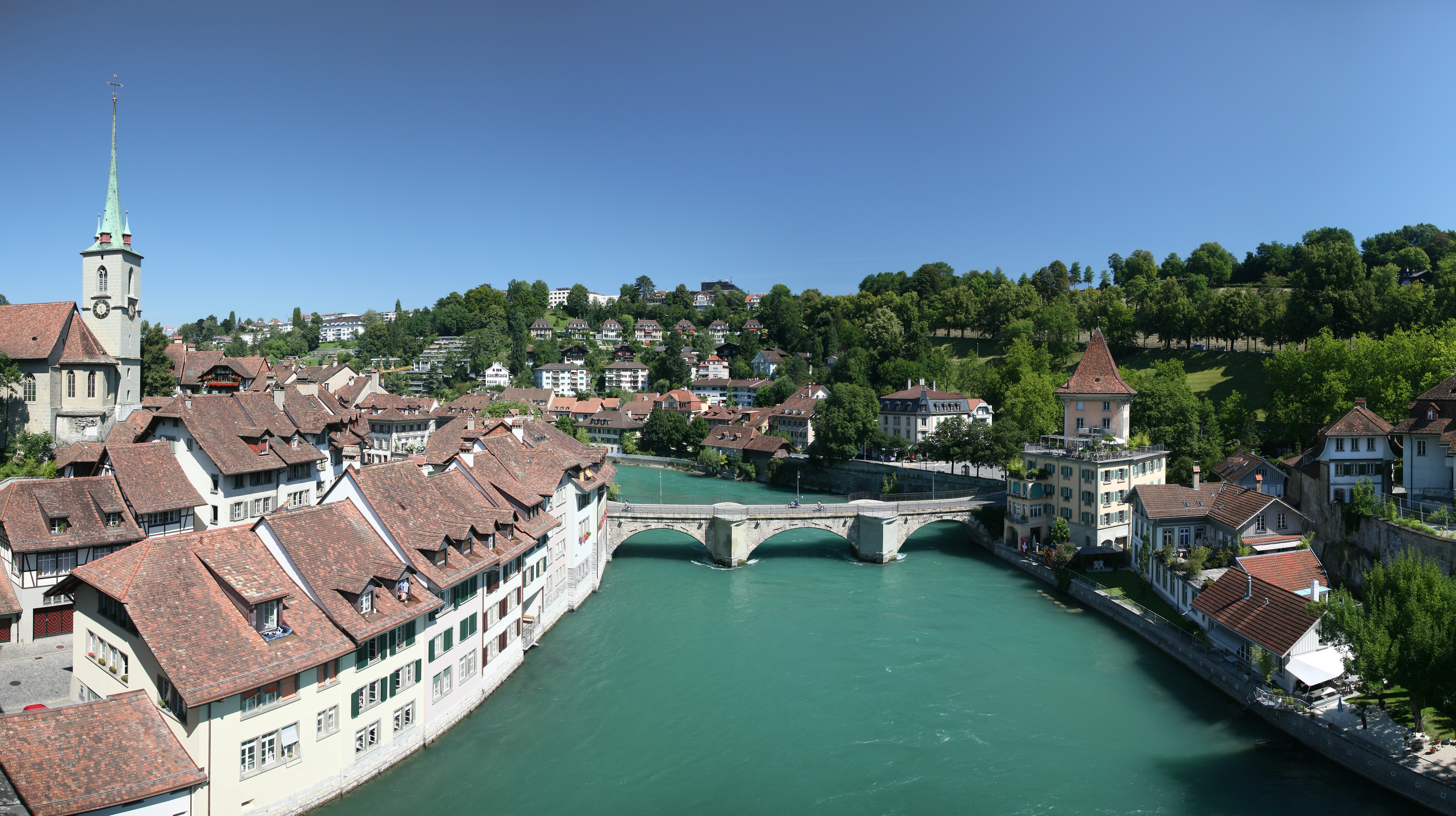 View from the Nydegg bridge on the river Aaare in Bern, Switzerland.